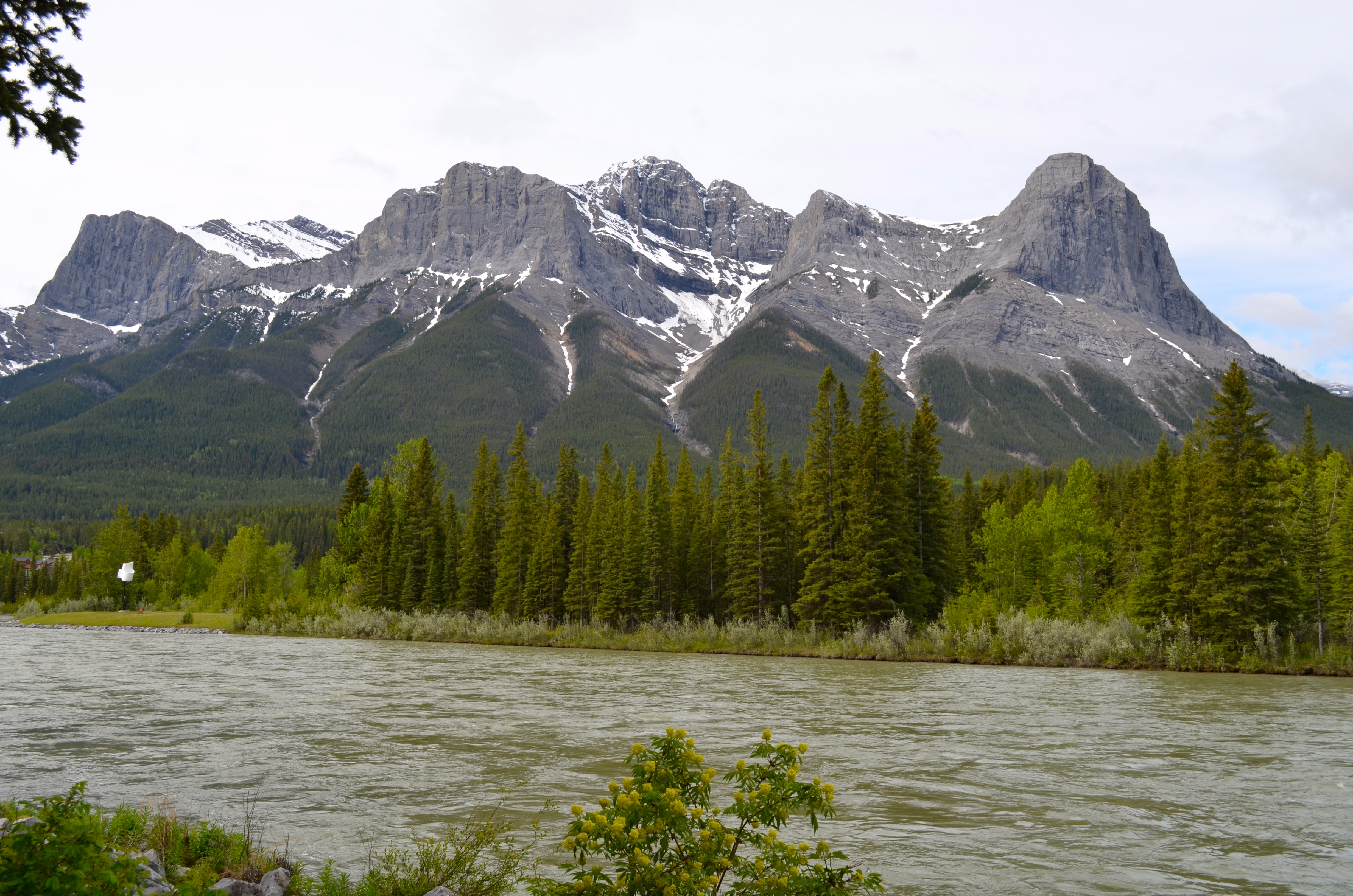 Bow River